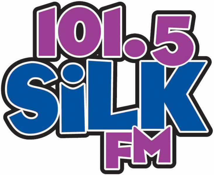 Logo of CILK-FM